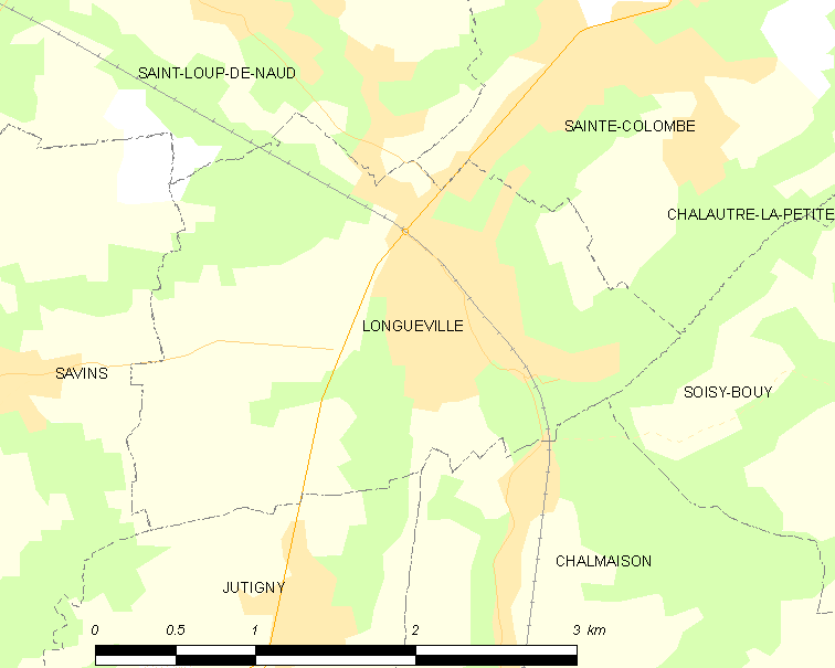 Map of French municipality Longueville